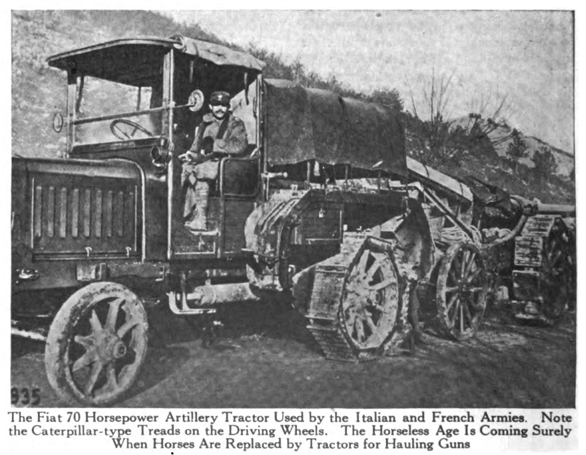 Fiat artillery tractor in the journal Horseless Age, volume 43, number 4, February 15, 1918, page 50.